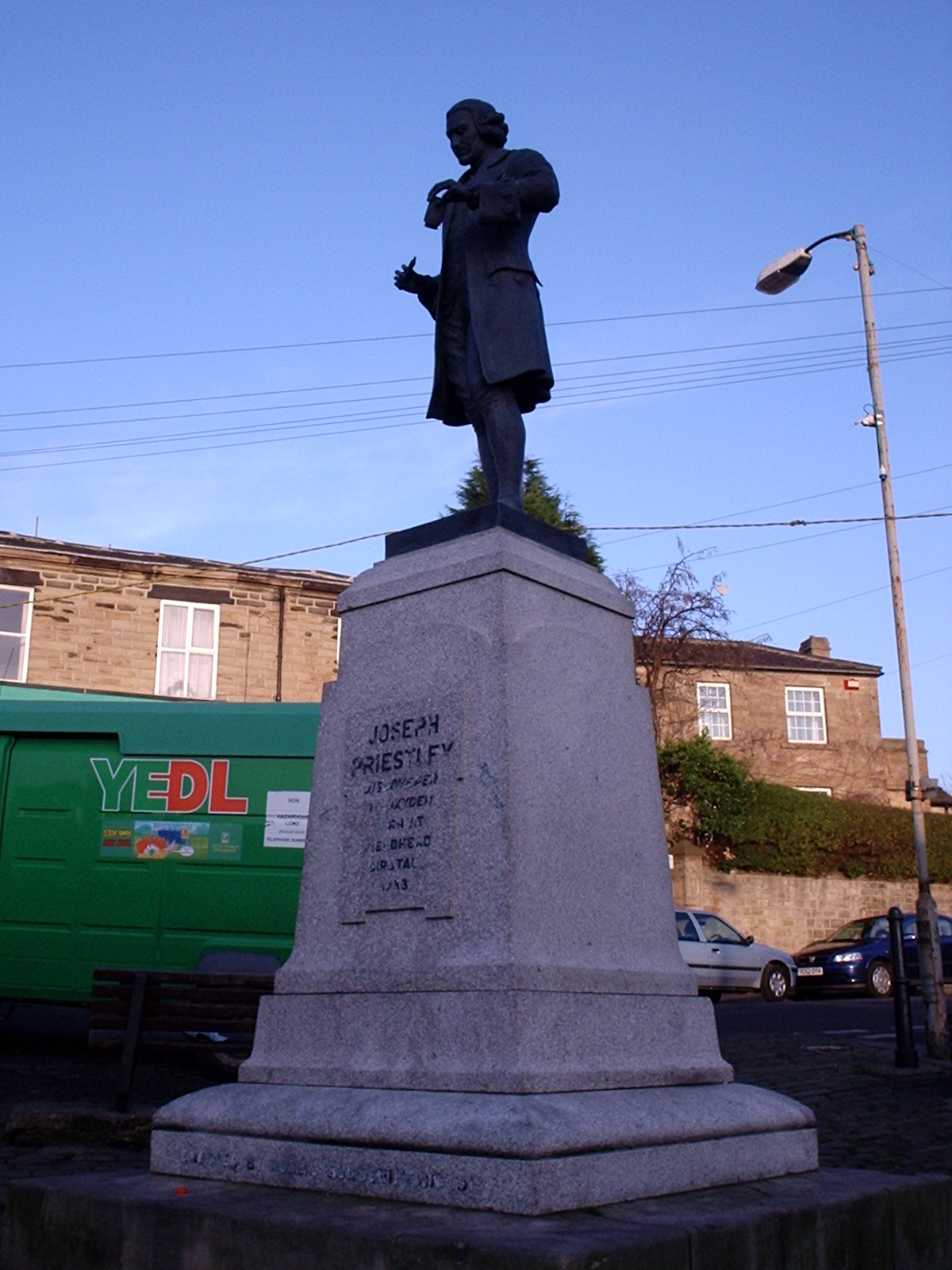 The statue of Joseph Priestly as it stands in Birstall today. This photo was taken by Charles W. Brown, resident of Birstall. user:Cwbrown